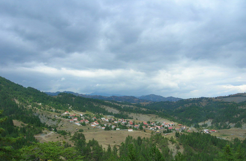 Mesolouri, greek village in Grevena Perfecture